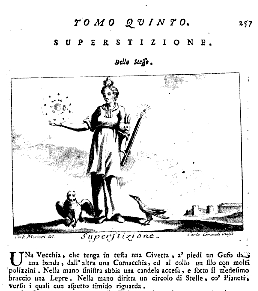 page of "iconologia ..." with Allegoric representation of supserstition